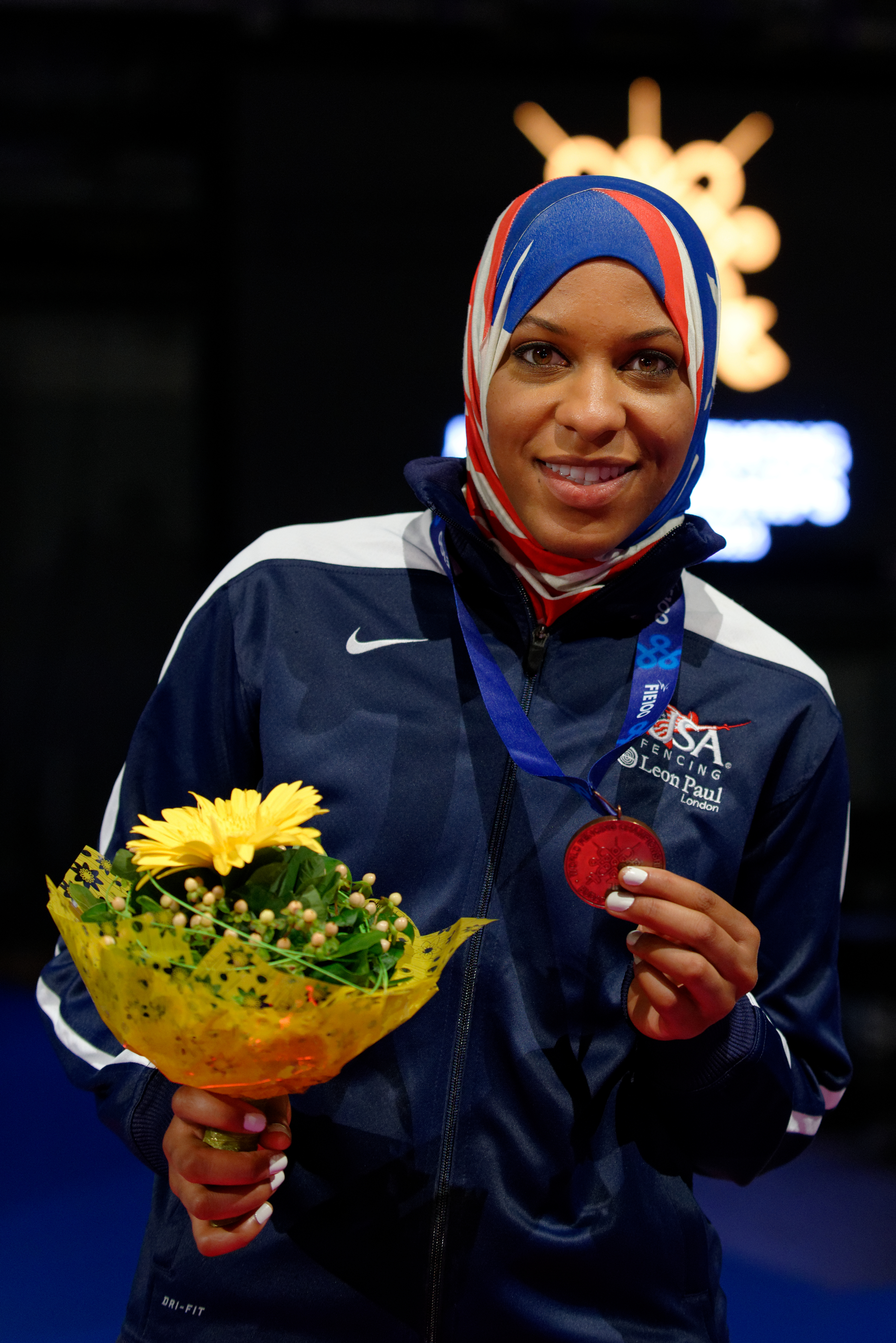 Ibtihaj Muhammad of the United States poses for photographs during the victory ceremony of the women's team sabre event in the 2013 World Fencing Championships 2013 at Syma Hall in Budapest, 12 August 2013.